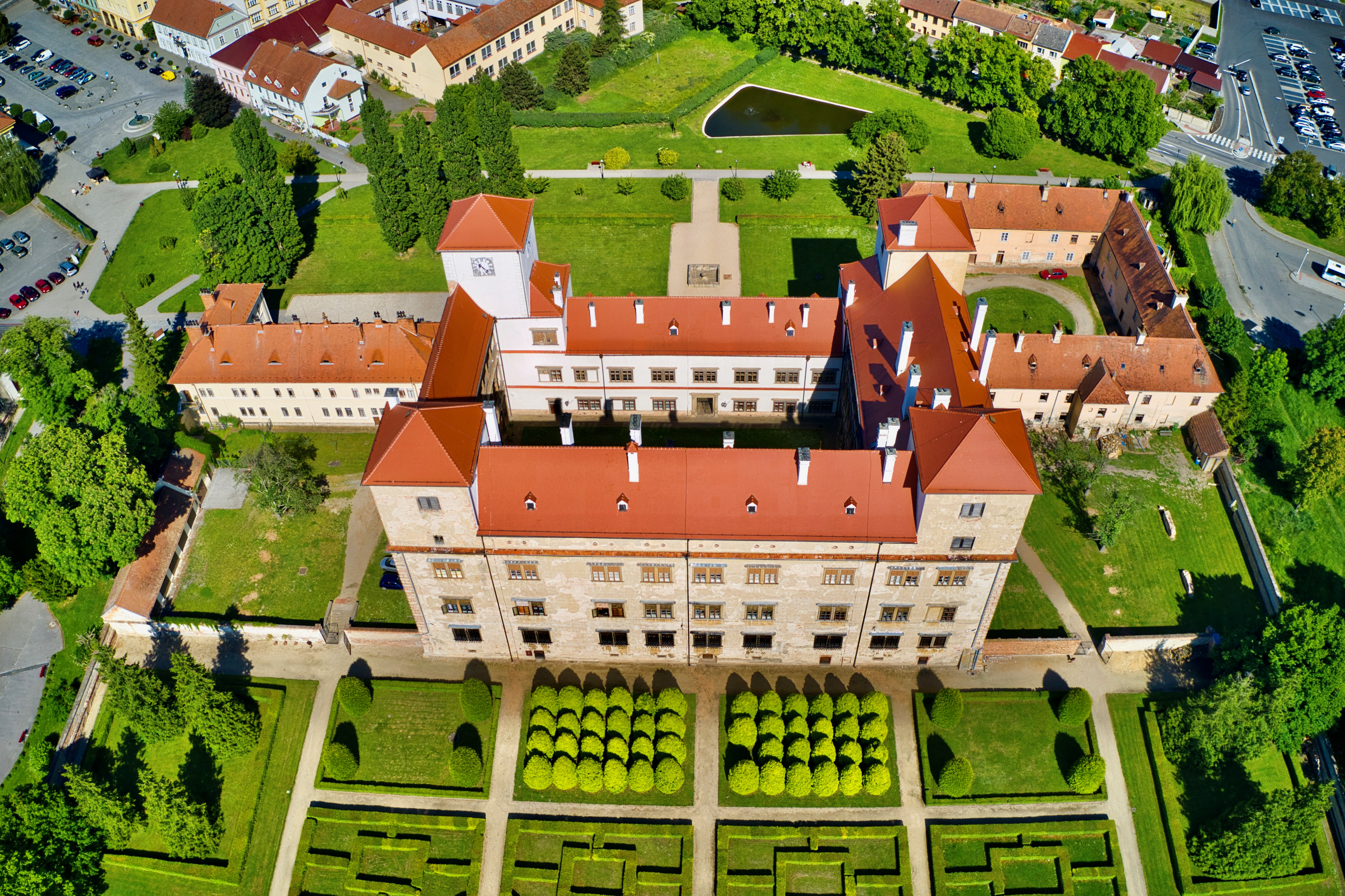 Bučovice chateau is a significant Renaissance monument